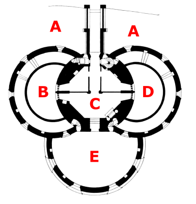 St Mawes diagram; cleaned up and labelled by Hchc2009